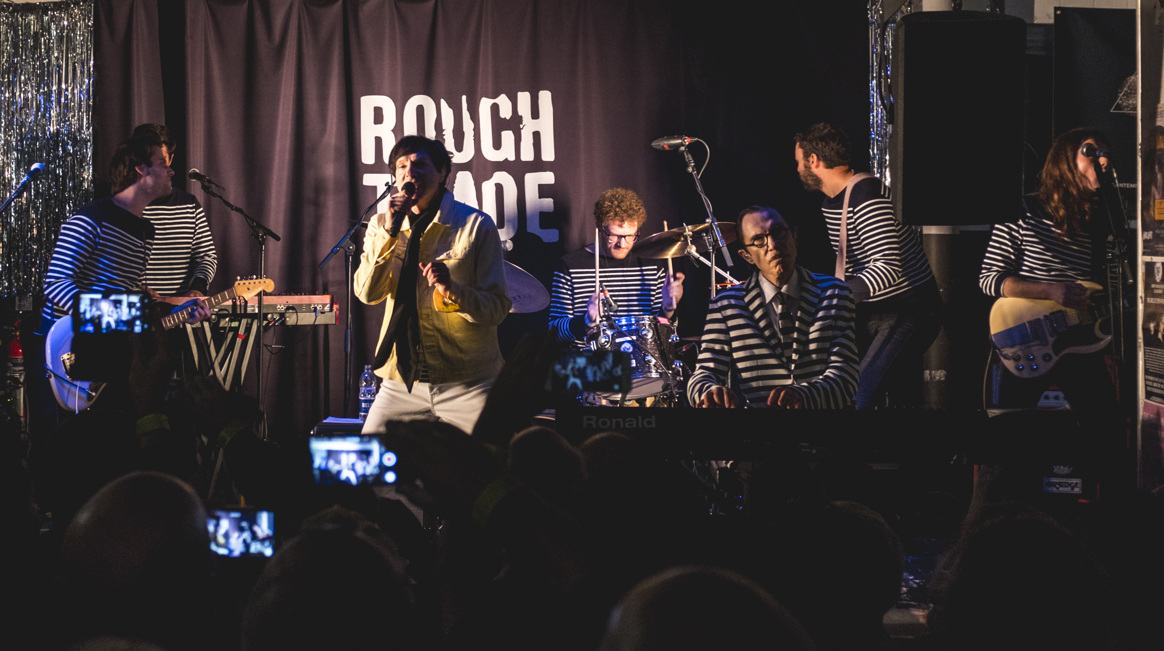 Album launch of Hippopotamus by the band Sparks.